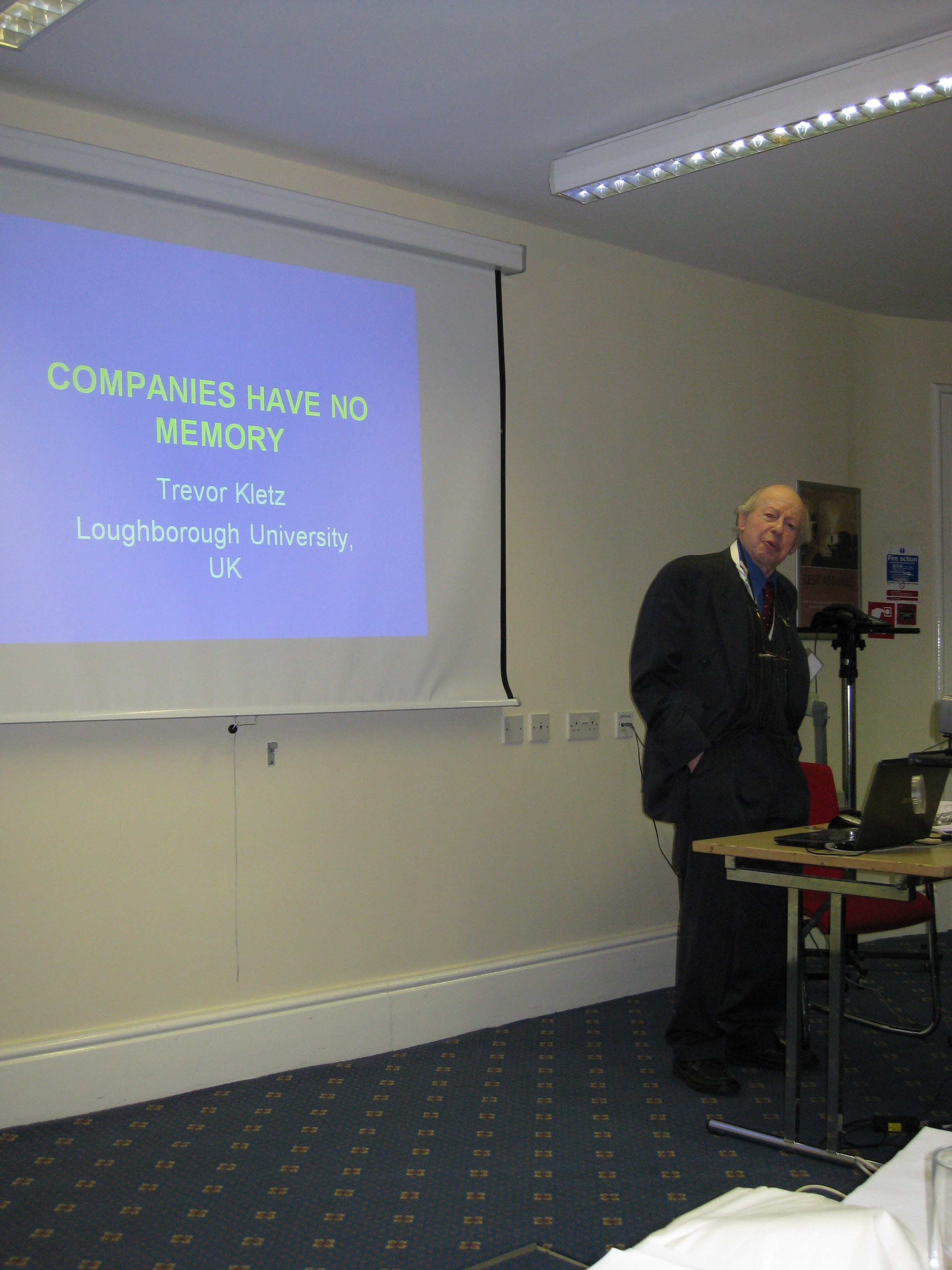 Trevor Kletz, speaking at a workshop on teaching safety in chemical engineering in Manchester, 18 January 2010.